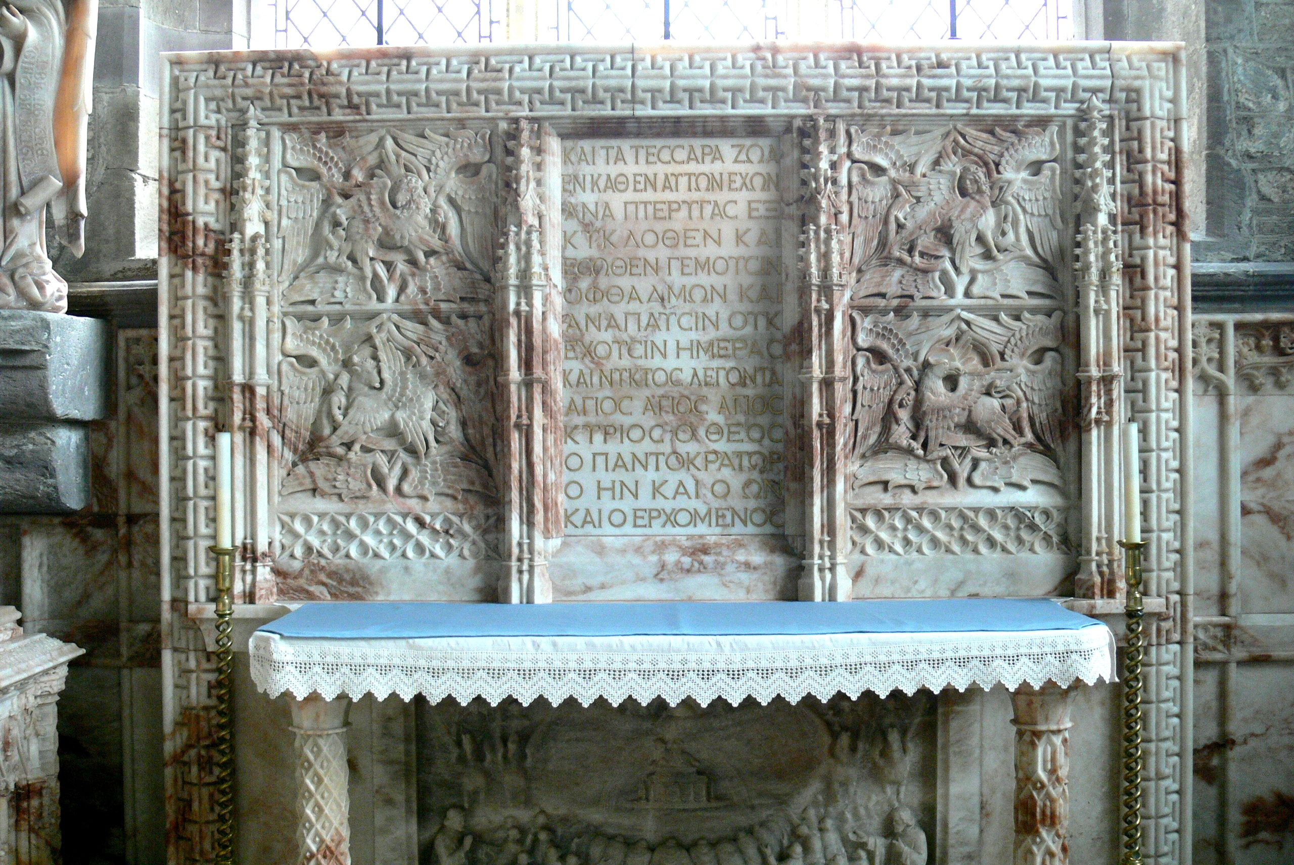 St.David's ( Wales ). Cathedral: Chapel of Saint Edward: Altar ( 19th century ).